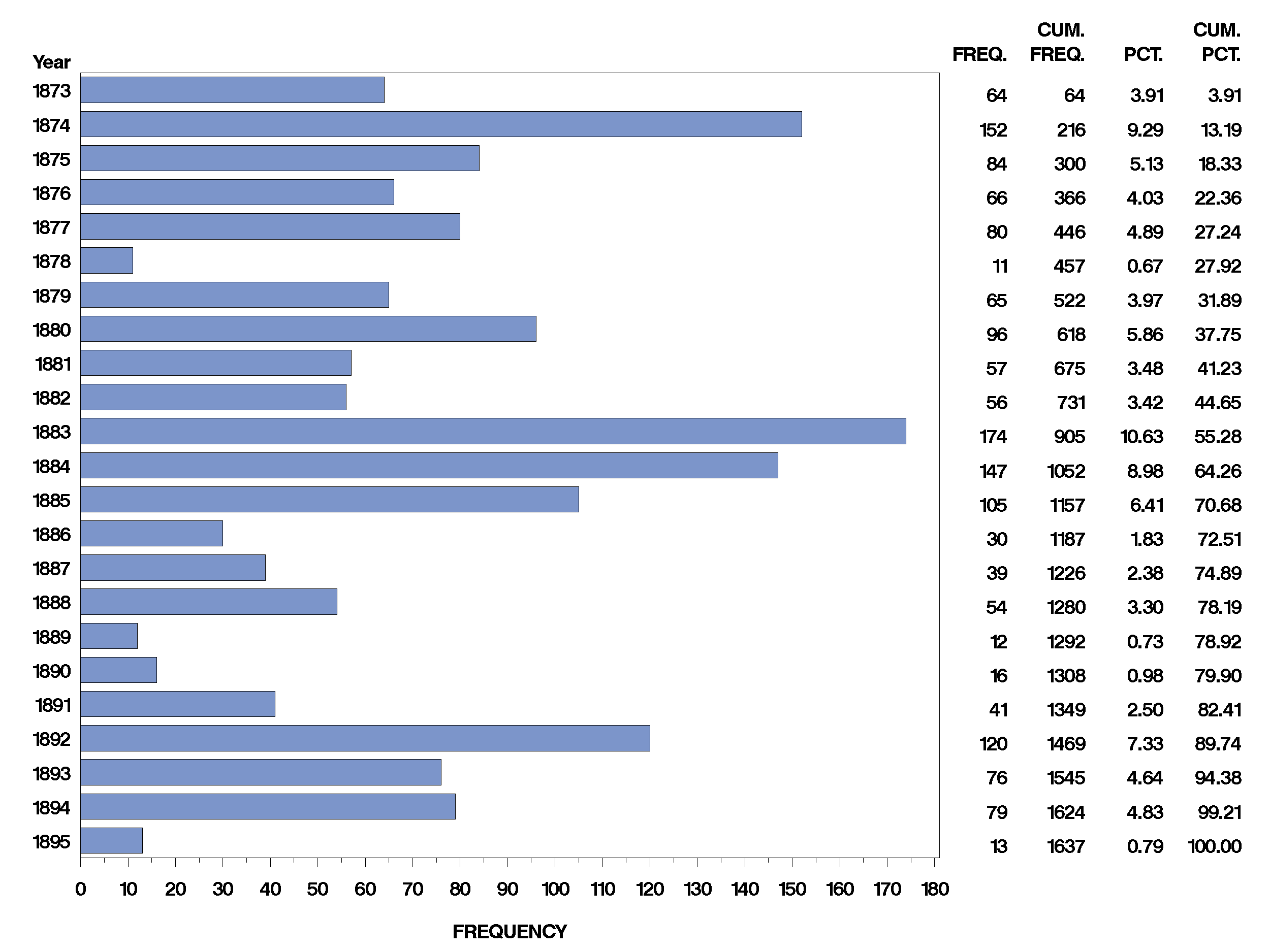 Histogram by year of the 1637 collections by Mary Ann McHard downloaded from Australasian Virtual Herbarium on 20 September using